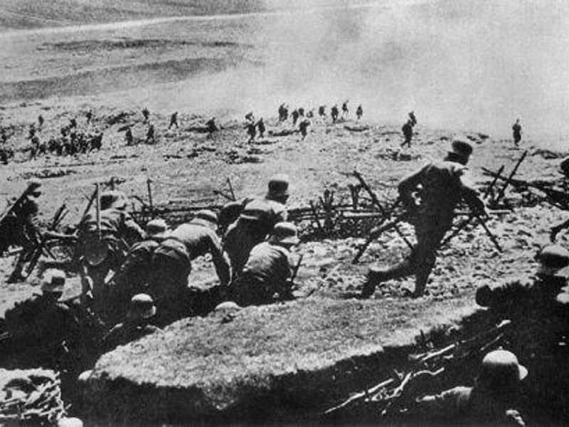 Autro-hungarian assault troops (Italian front)